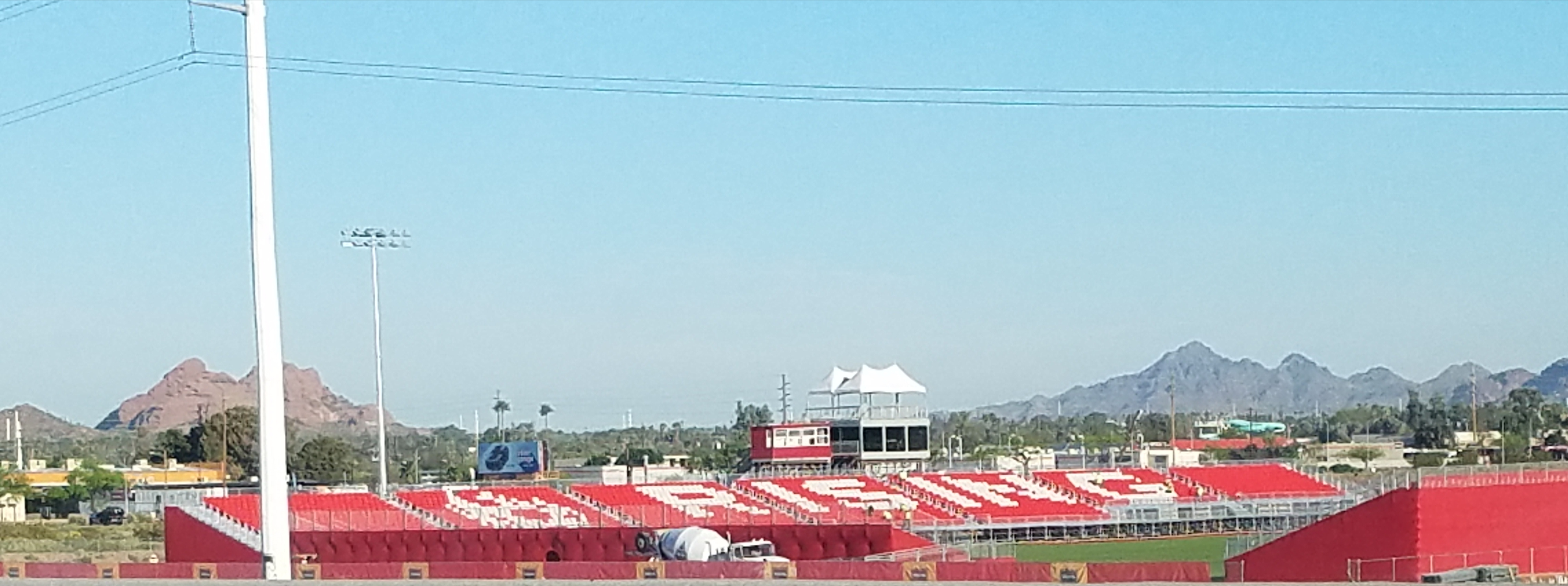 A nearly complete PRFC Soccer Complex.